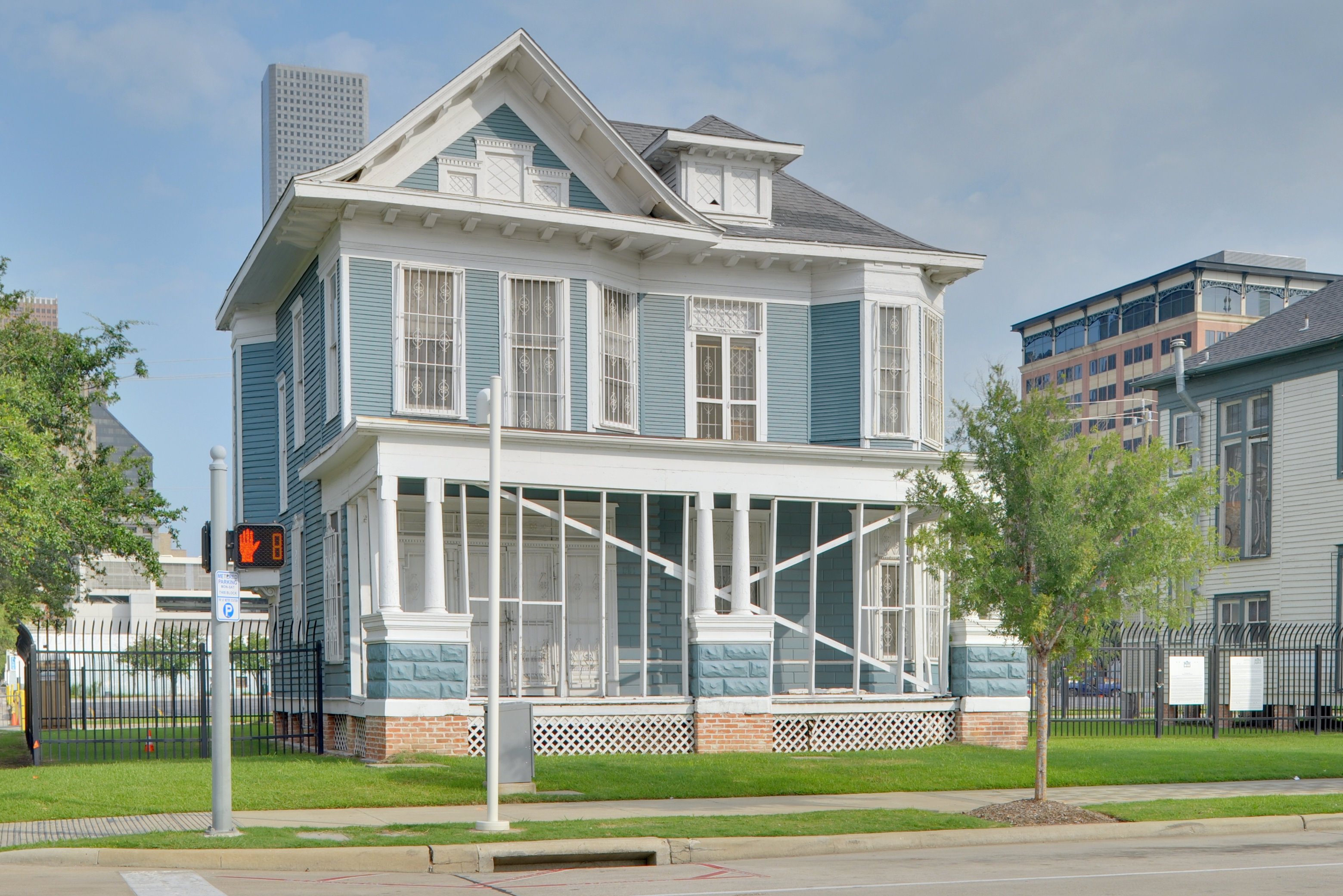 Located at 1711 Rusk in downtown Houston (Texas, USA), the Arthur B. Cohn House lies between Discovery Green and Minute Maid Park